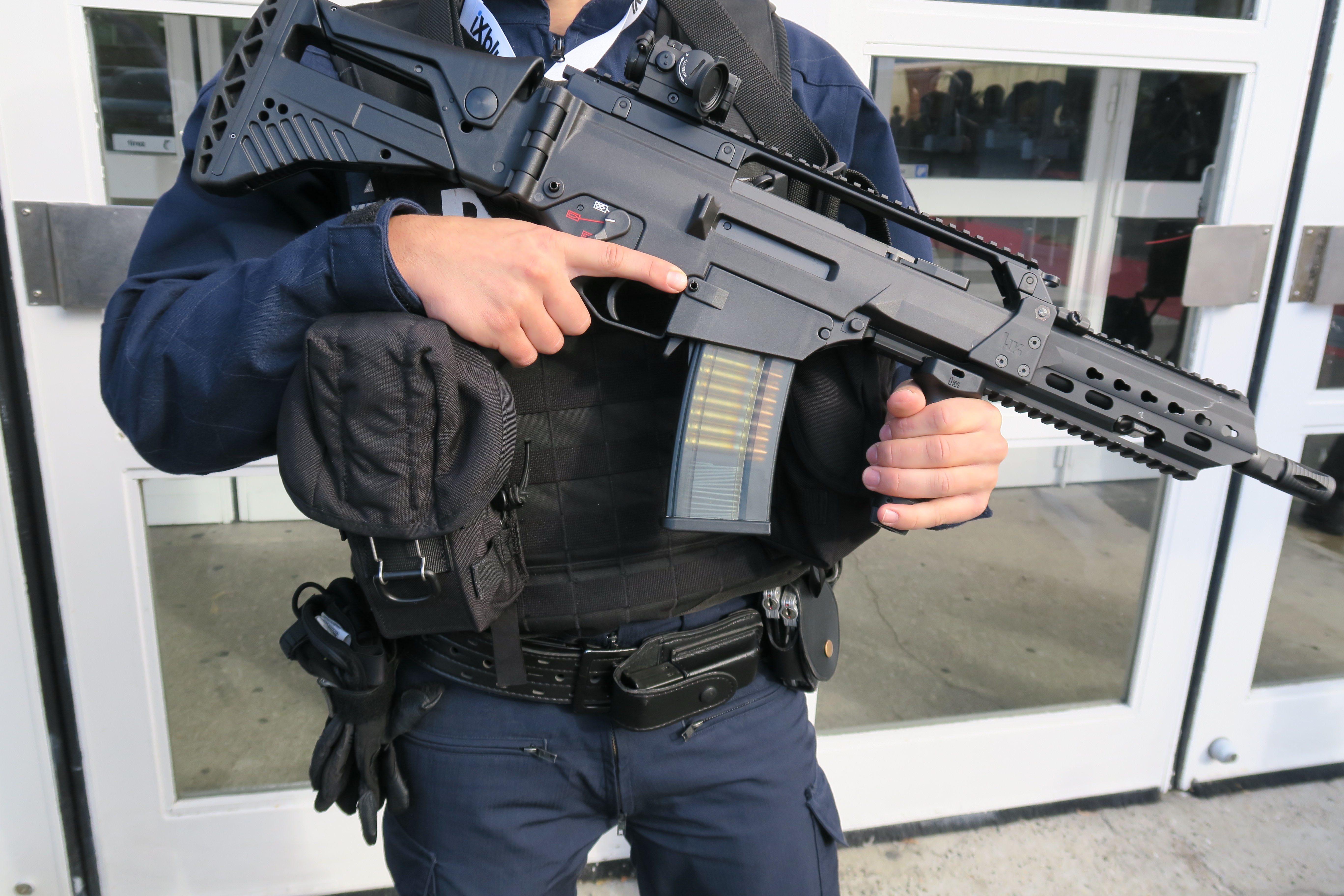 French CRS police officer with HK G36 assault rifle